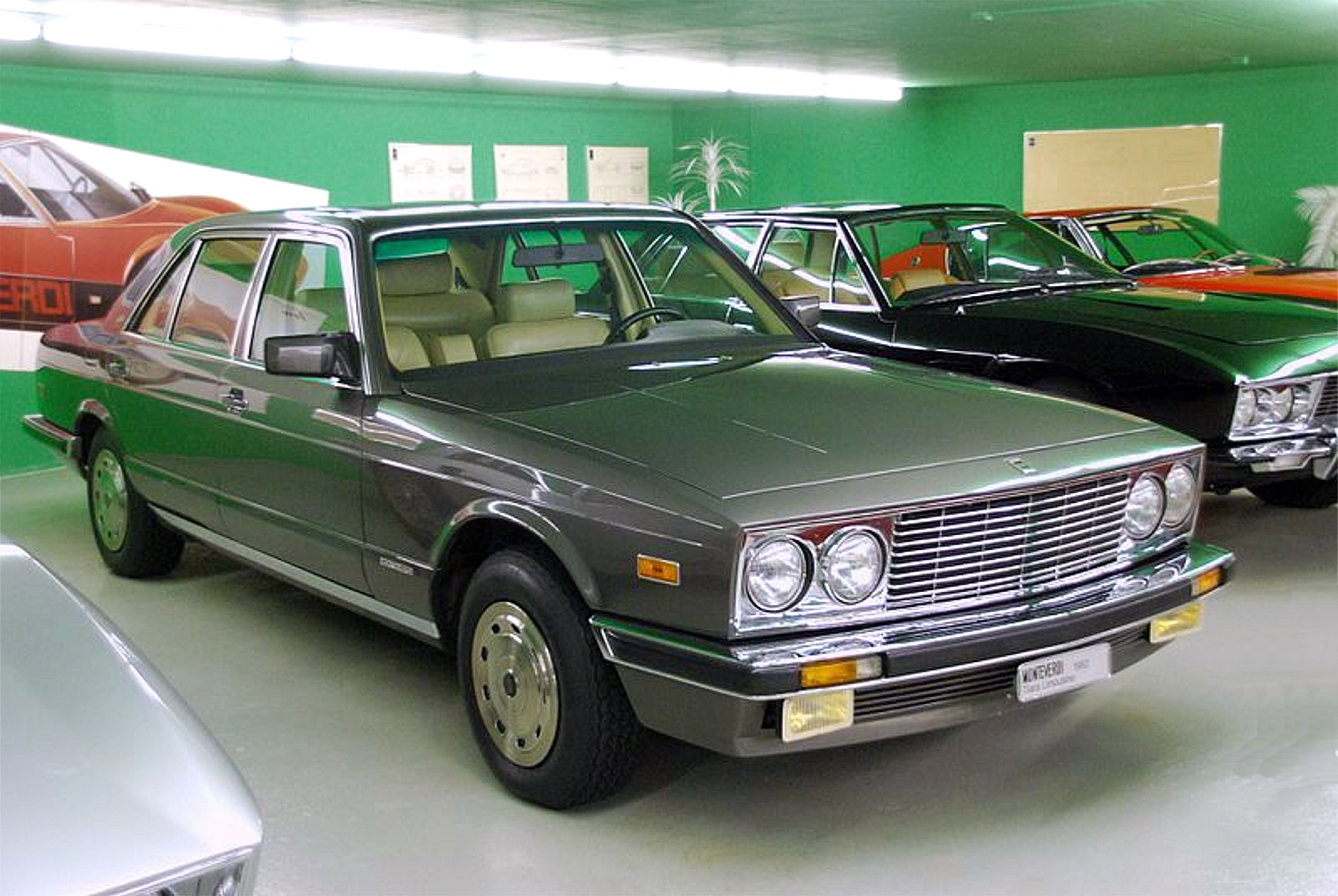 Monteverdi Tiara, shown at the Monteverdi Automuseum in Binningen.